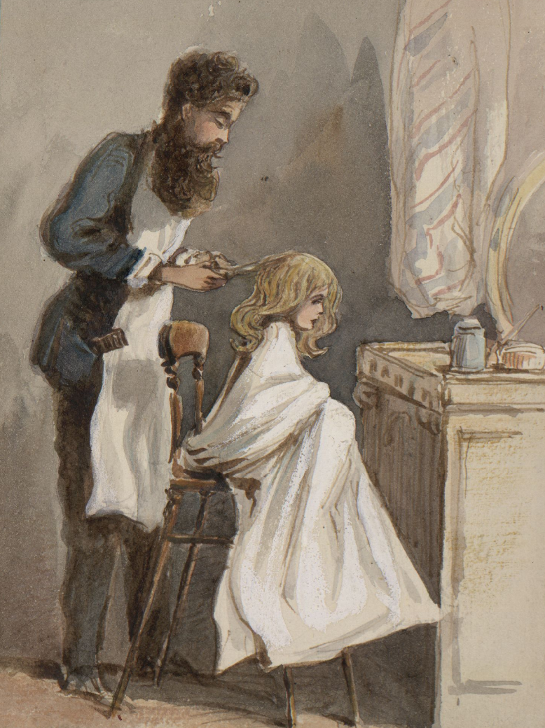 Examples of artwork on a variety of subjects and in a variety of styles by Francis Elizabeth Wynne from a sketchbook (ca. 420 drawings): mixed media, including watercolour, wash and, pen and ink.